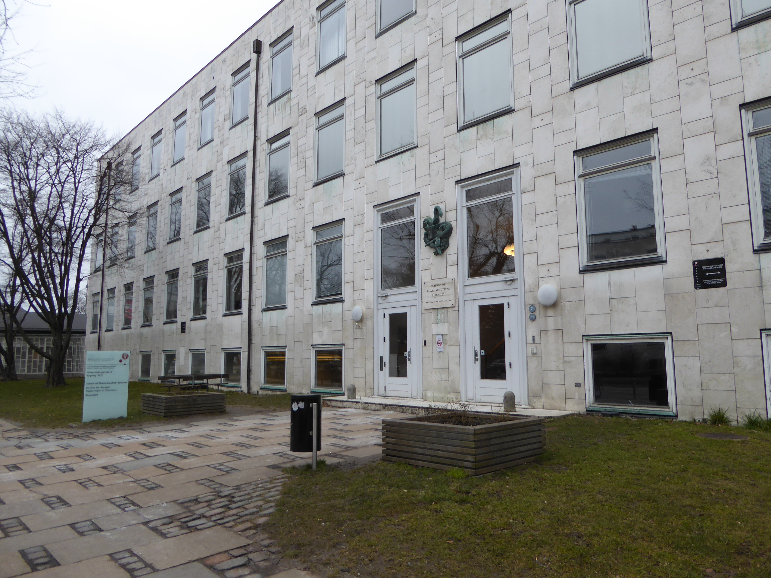 Det Farmaceutiske Fakultet (School of Pharmaceutical Sciences), a part of Det Sundhedsvidenskabelige Fakultet (Faculty of Health and Medical Sciences), and in turn a part of the University of Copenhagen, at Universitetsparken in Østerbro in Copenhagen.